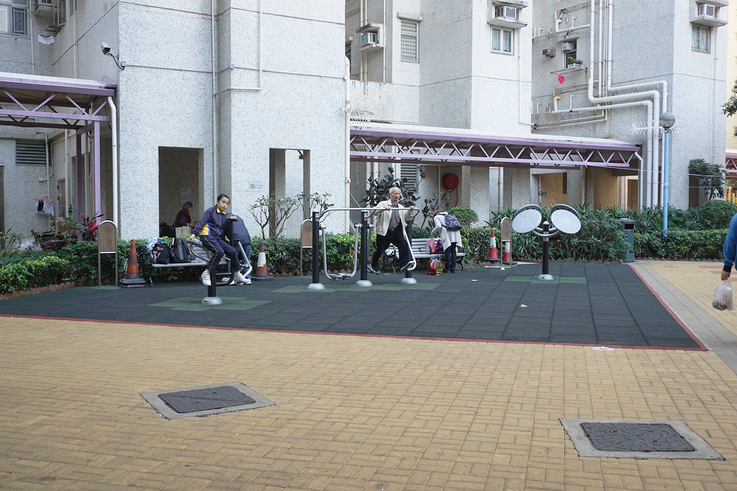 Beverly Garden in Tseung Kwan O, Hong Kong.